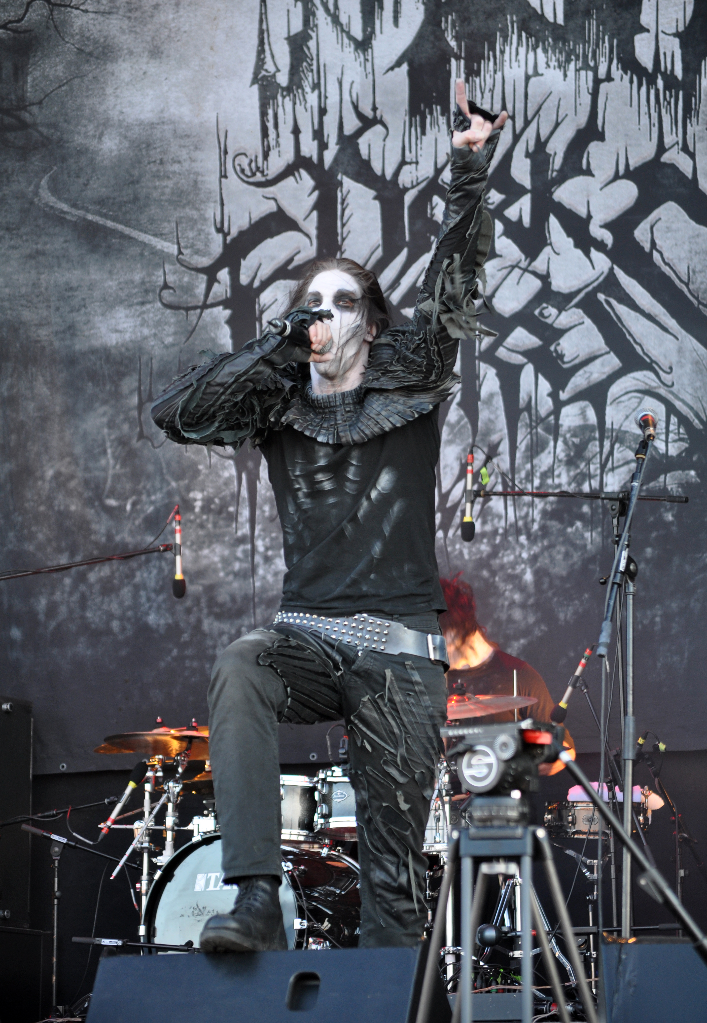 Dark Fortress at Party.San Open Air 2012